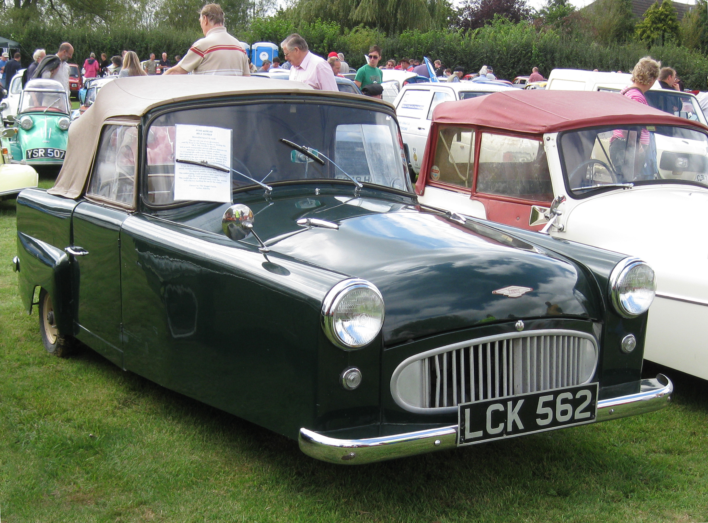 A 1956 Bond Minicar Mark E prototype Tourer, at the National Microcar Rally, Atwell-Wilson Motor Museum, Calne, Wiltshire